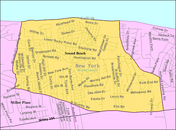 U.S. Census 2000 reference map for Sound Beach